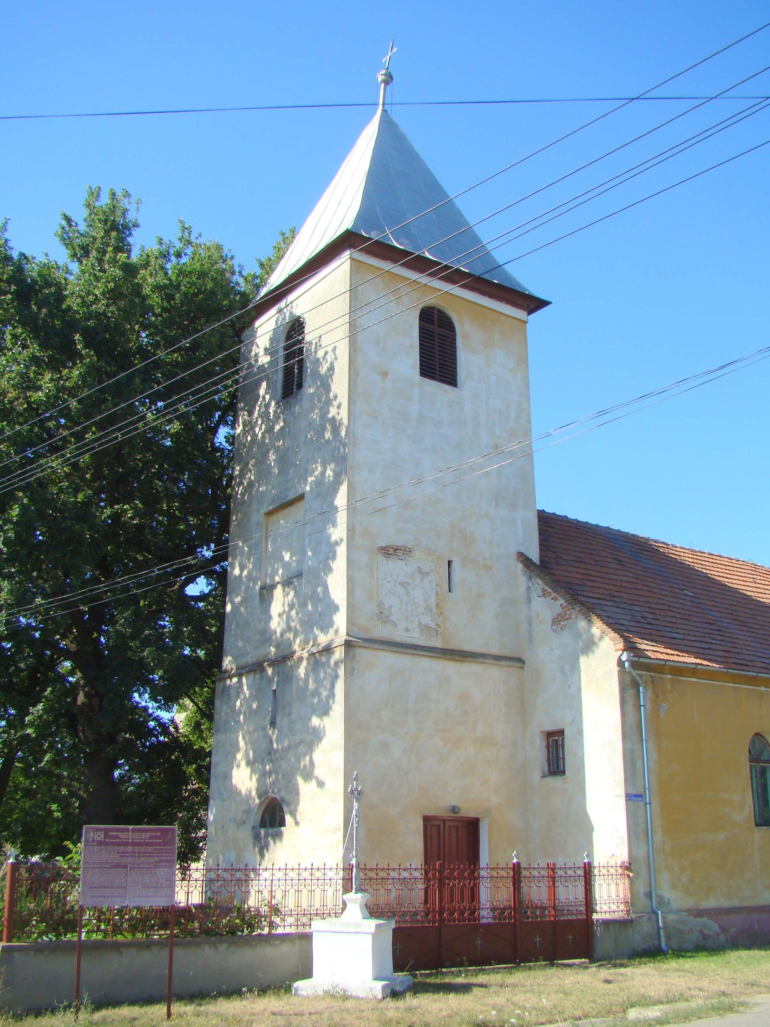 Franciscan monastery in Vințu de Jos, Alba county, Romania 01